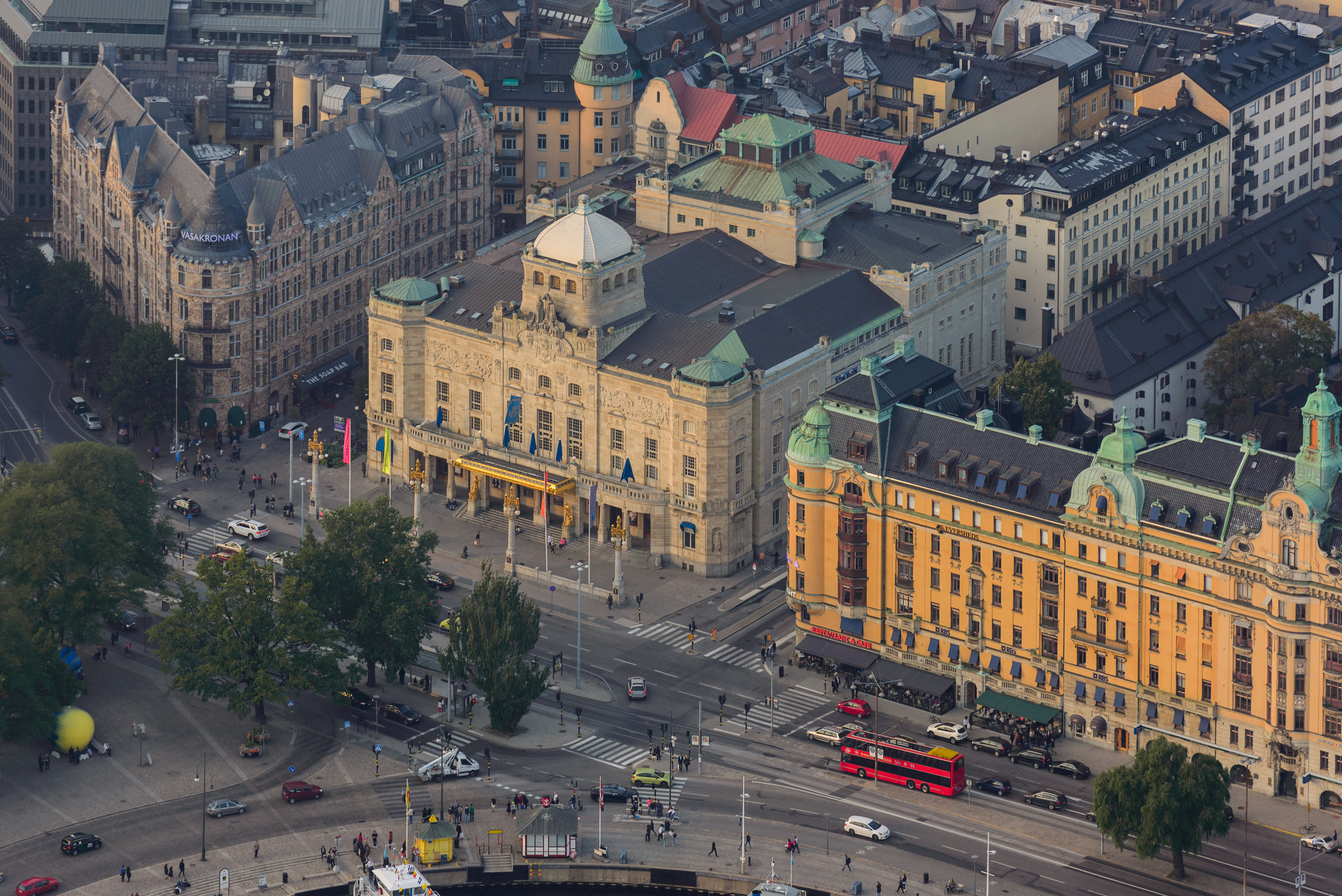 Nybroplan.